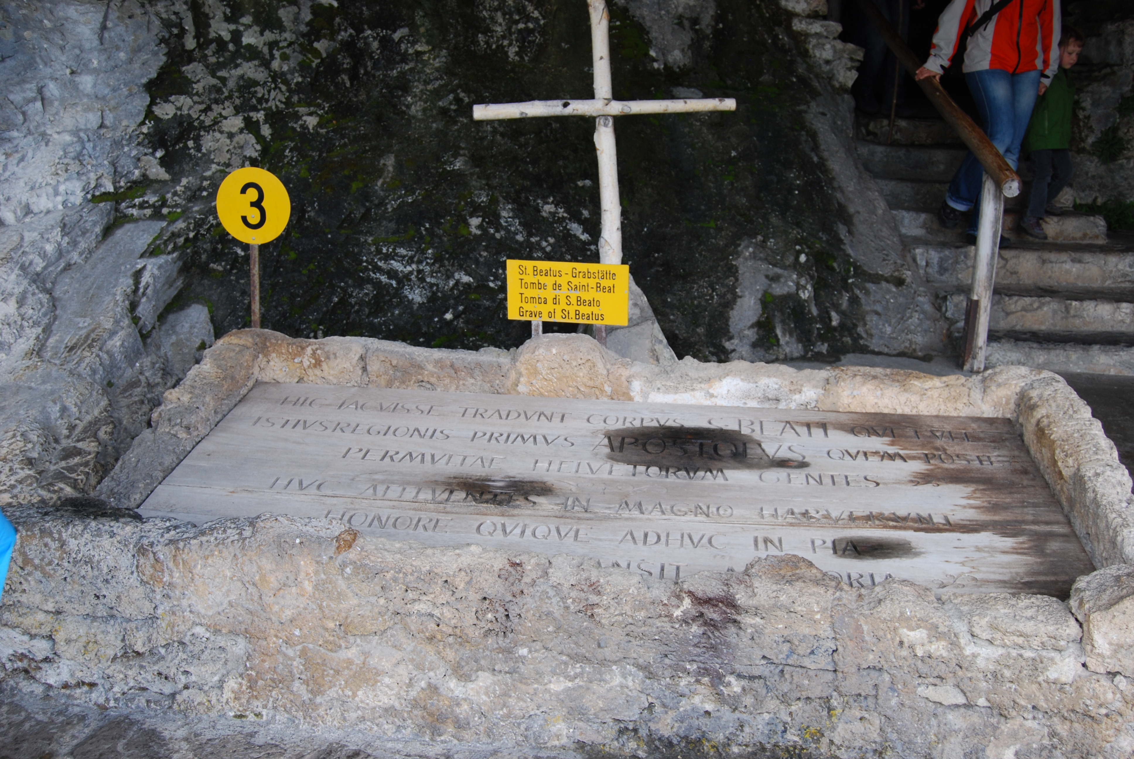 Grave of St. Beatus at the entry of Saint Beatus Caves, municipality of Beatenberg, canton of Bern, Switzerland